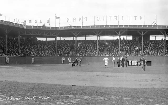 Opening dedication of Athletic Park in Vancouver, Canada, in 1915. 'Vancouver vs. Victoria.' The game was played at the Athletic Park at 5th Avenue and Hemlock Street.